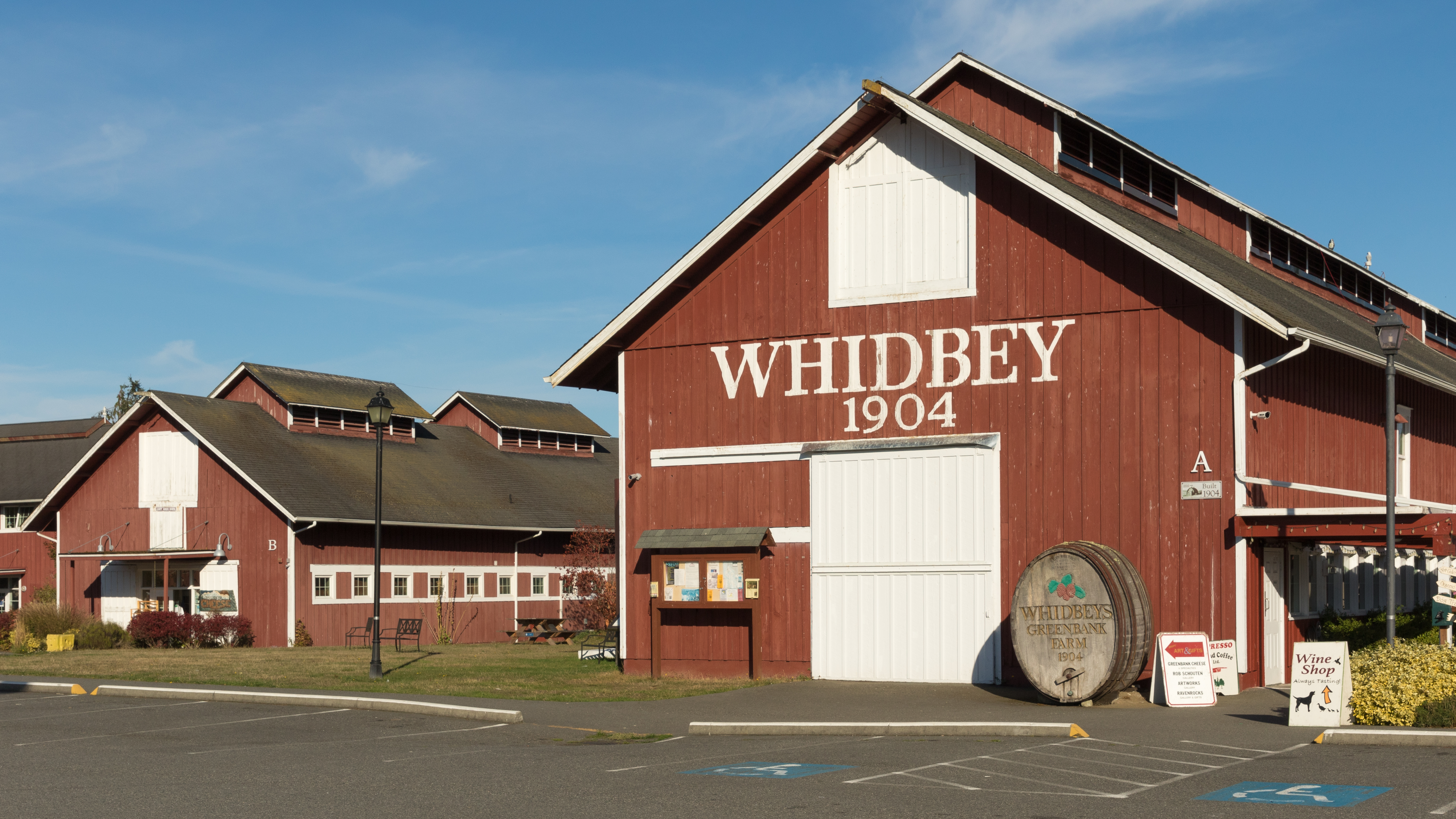 Greenbank Farm, Whidbey Island, Washington (front view)